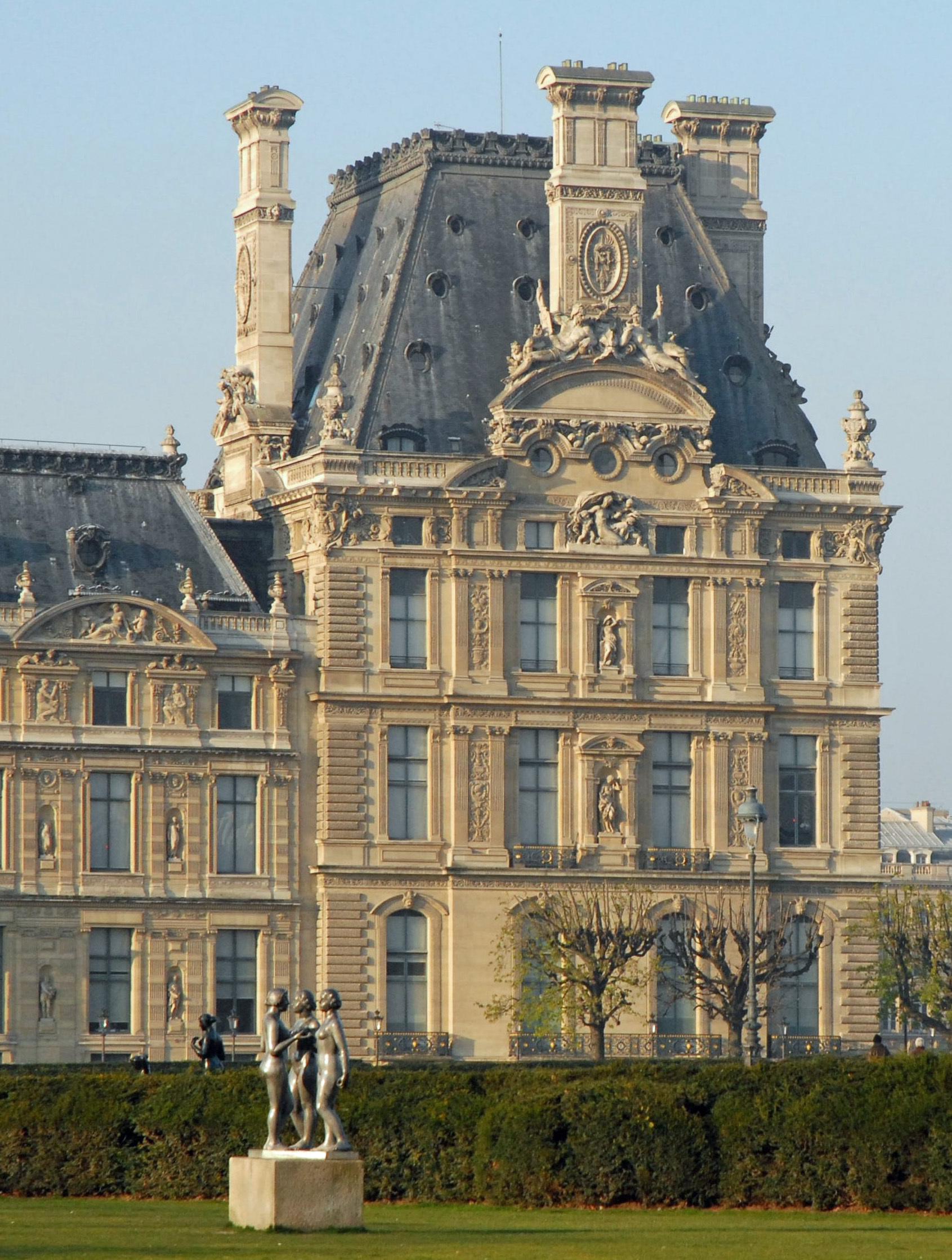 North facade of the Pavillon de Flore, added to the pavillion in 1874–1879 after the destruction of the Palais des Tuileries by fire in 1871, as designed by the French architect Hector Lefuel